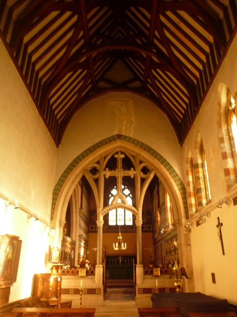 Millport: cathedral interior Looking east inside the 1539838.